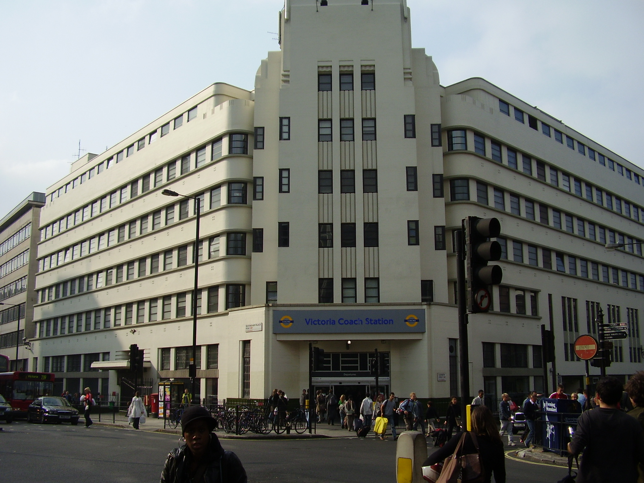 Taken by me on 15 October 2006